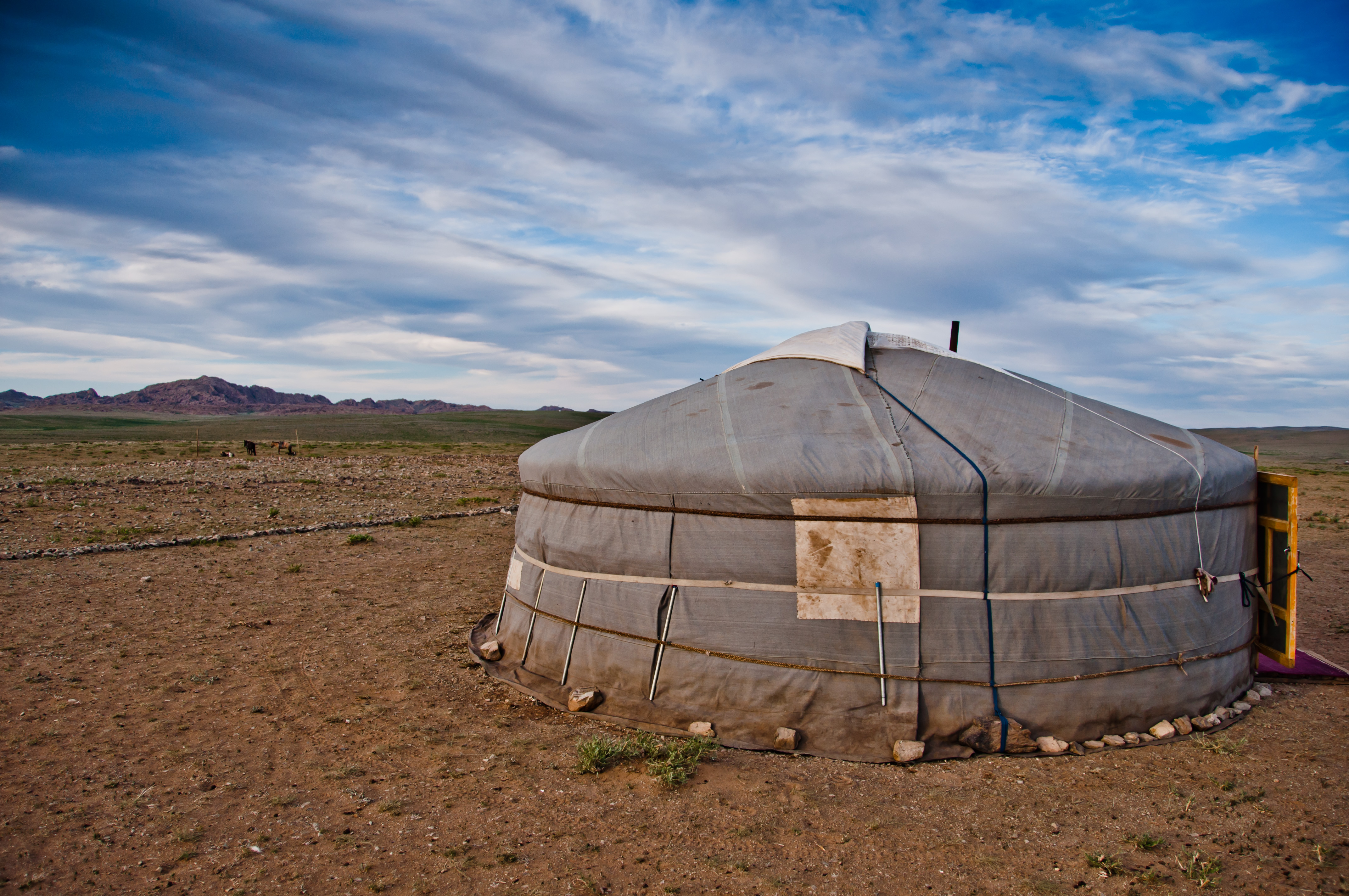 A ger, sometimes called a yurt, sits on the Steppes near Mandalgovi, Mongolia.